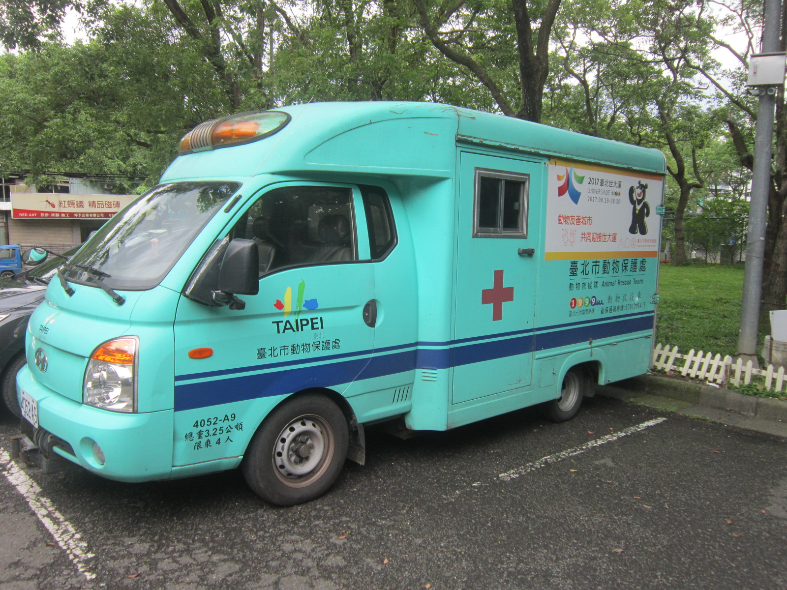 Hyundai Porter animal rescue truck 4052-A9 of Taipei City Animal Protection Office (TCAPO) at Taipei Animal Shelter.